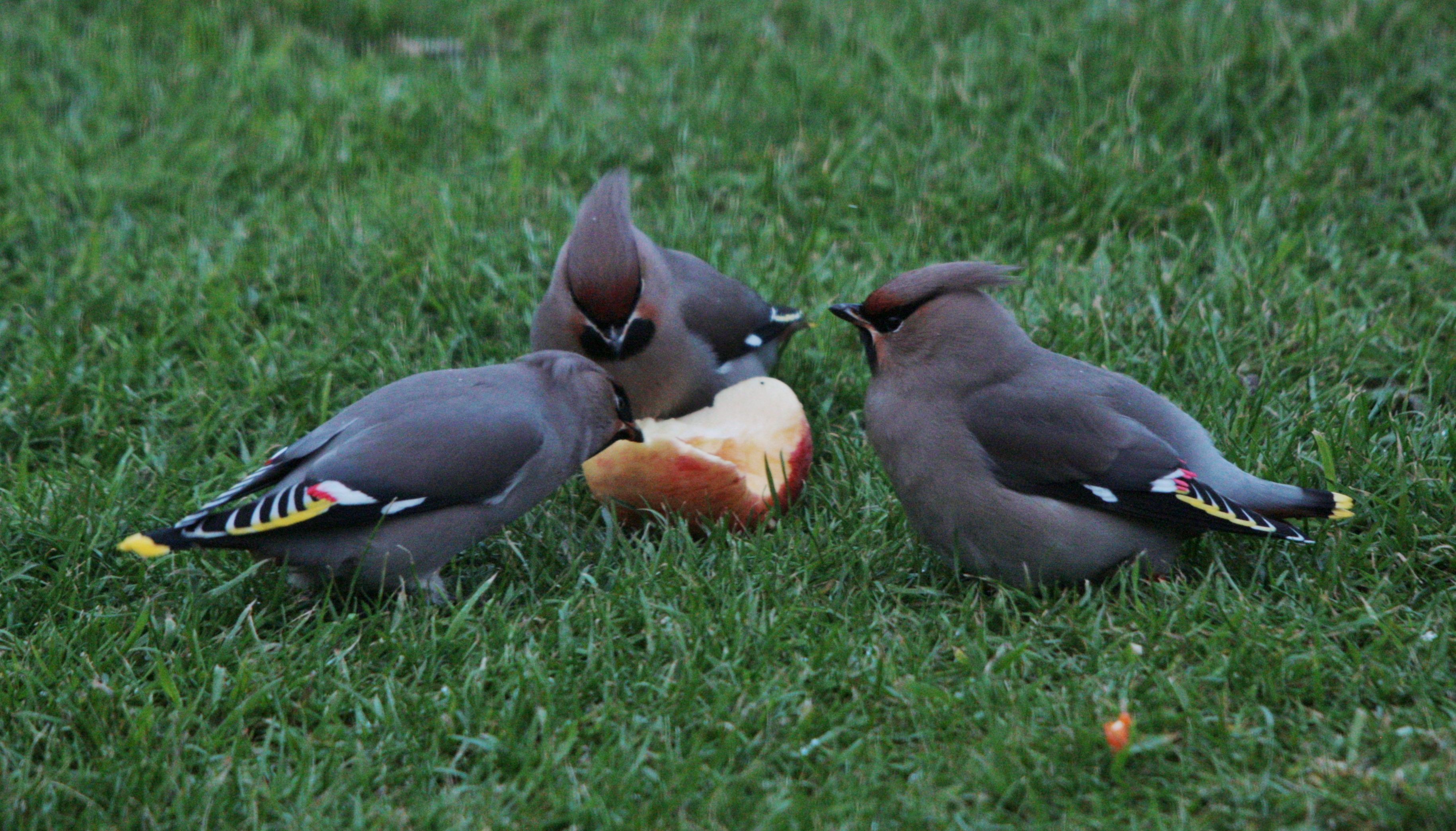 Bombycilla garrulus, Scatness, Shetland Isles. Some unexpected and welcome visitors !